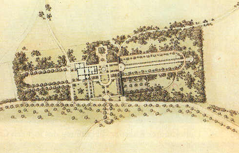 horticultural plan of Lindstedt castle, Potsdam, Germany